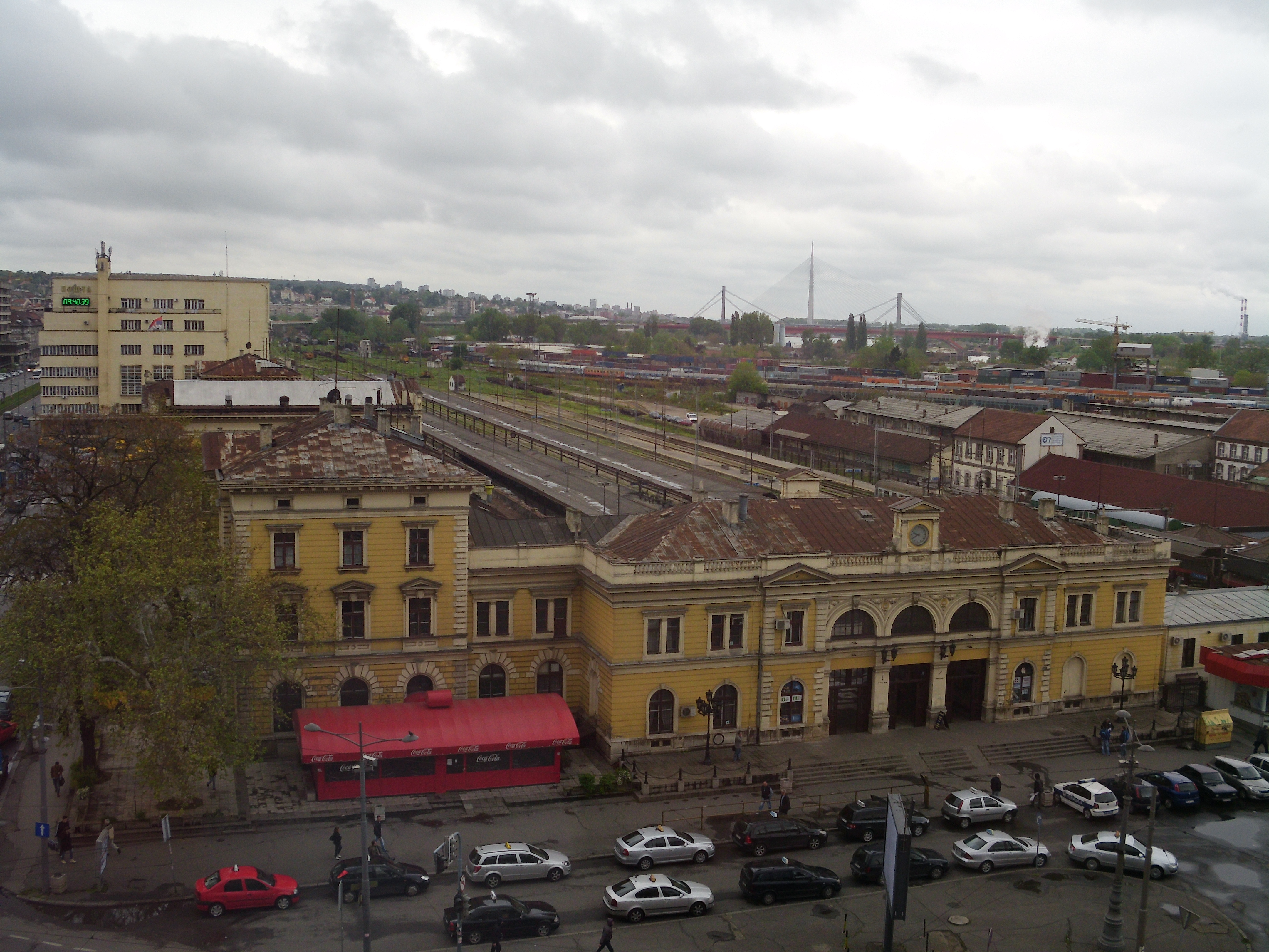 Main train station in Belgrade (Beograd), Serbia.